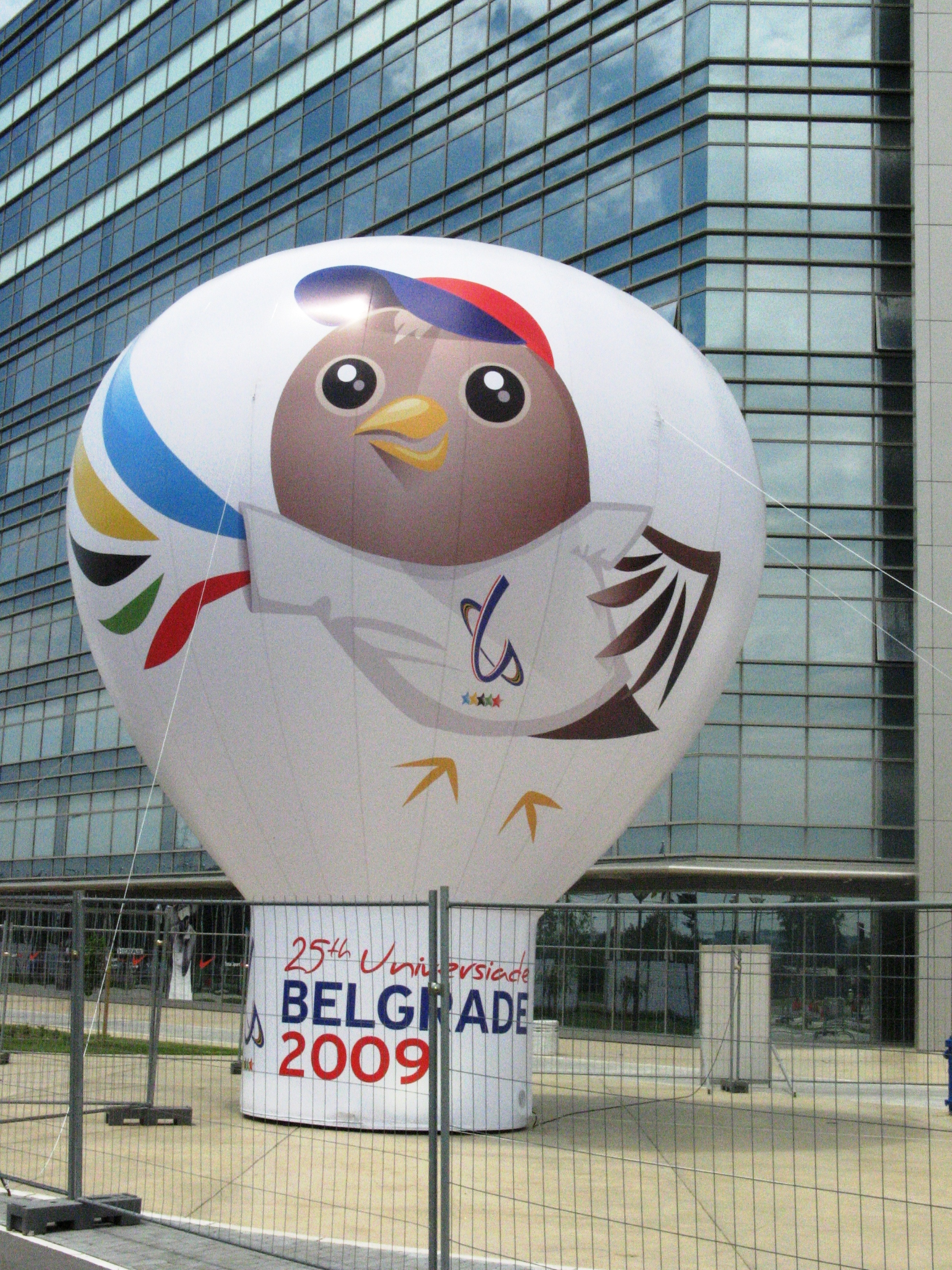 Belville: 2009 Summer Universiade, Belgrade; The mascot imprinted on a balloon in front of the international building